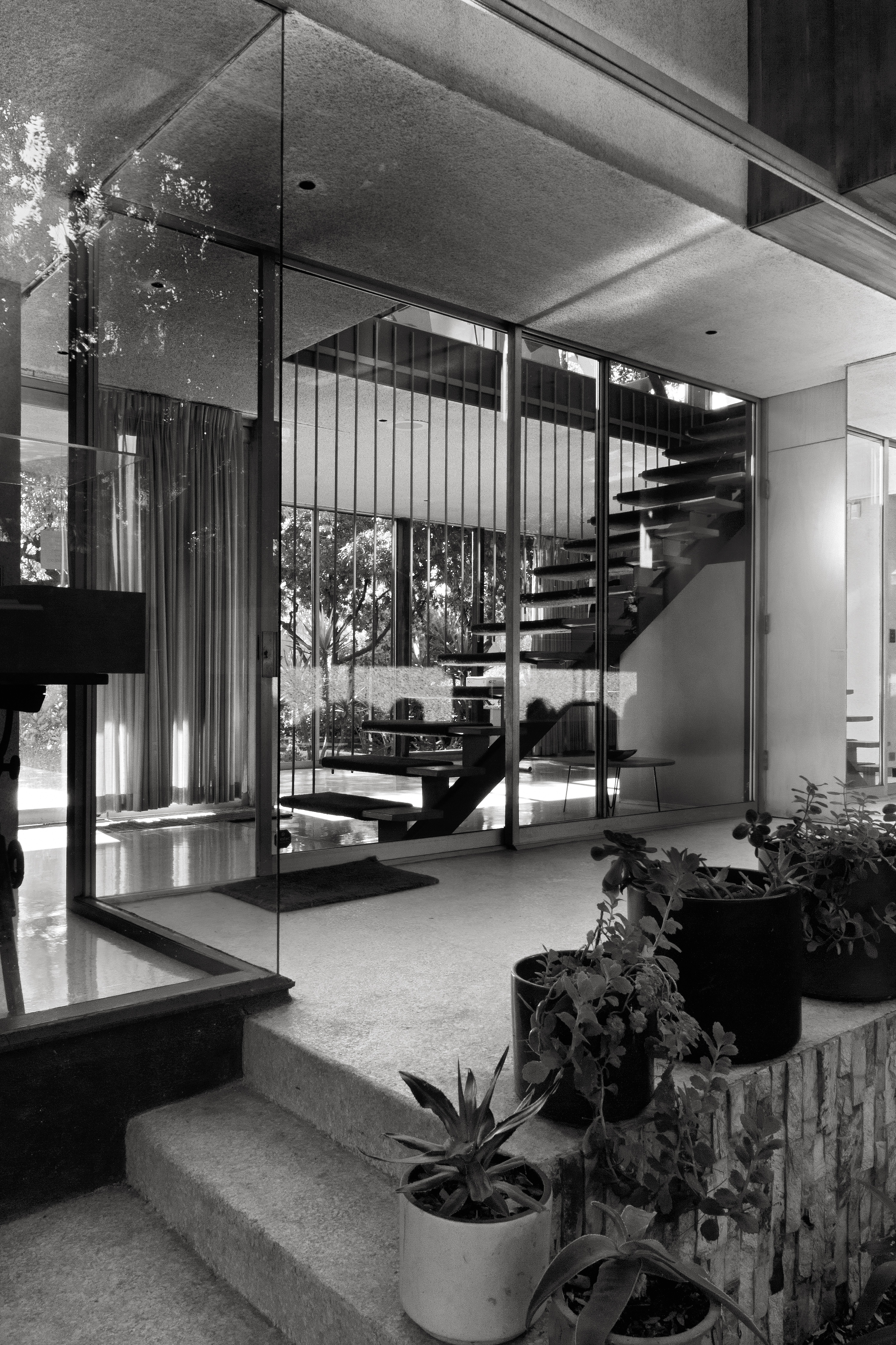 Main structure landing. Inner courtyard.